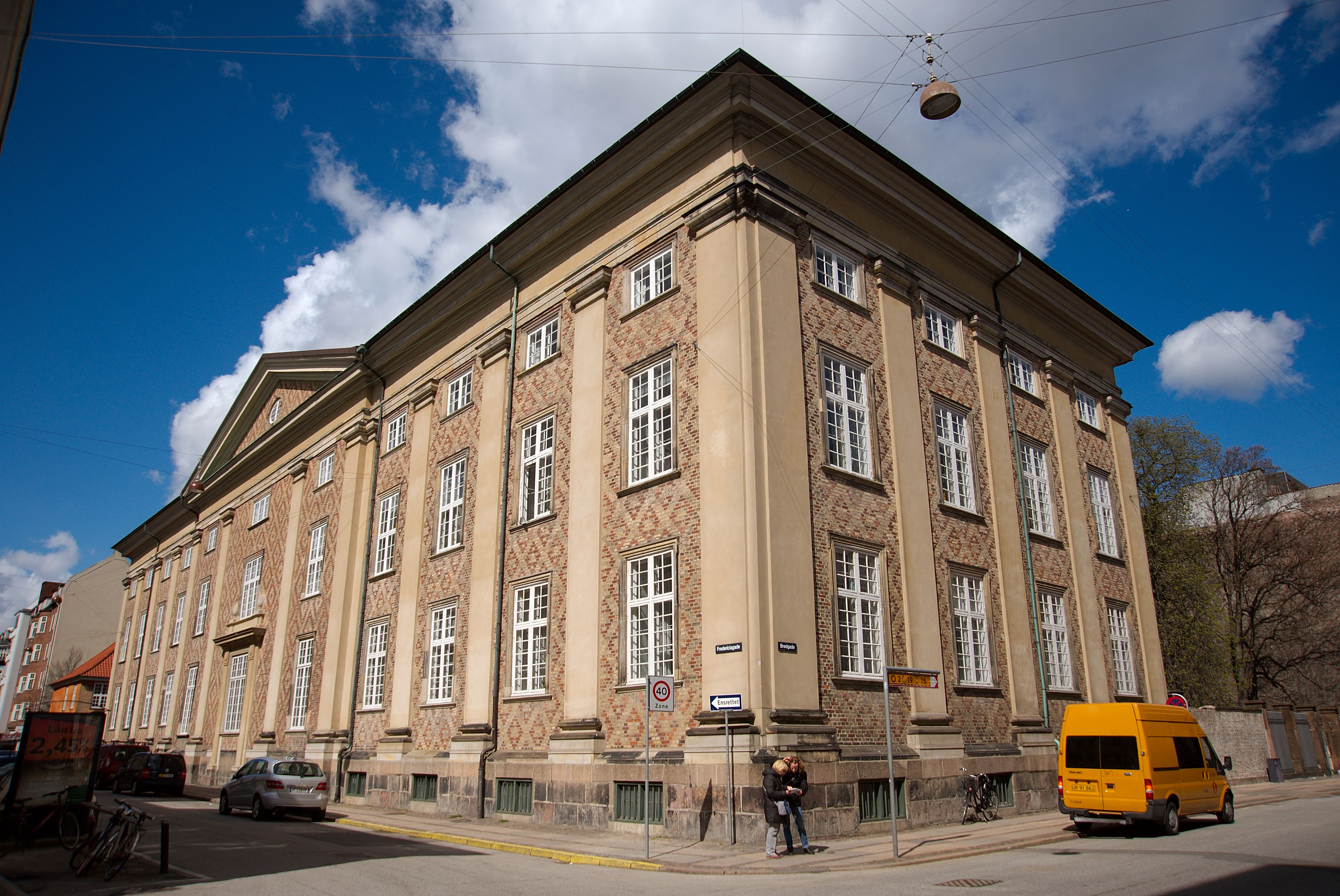 The High Court of Eastern Denmark in Bredgade 59, Copenhagen